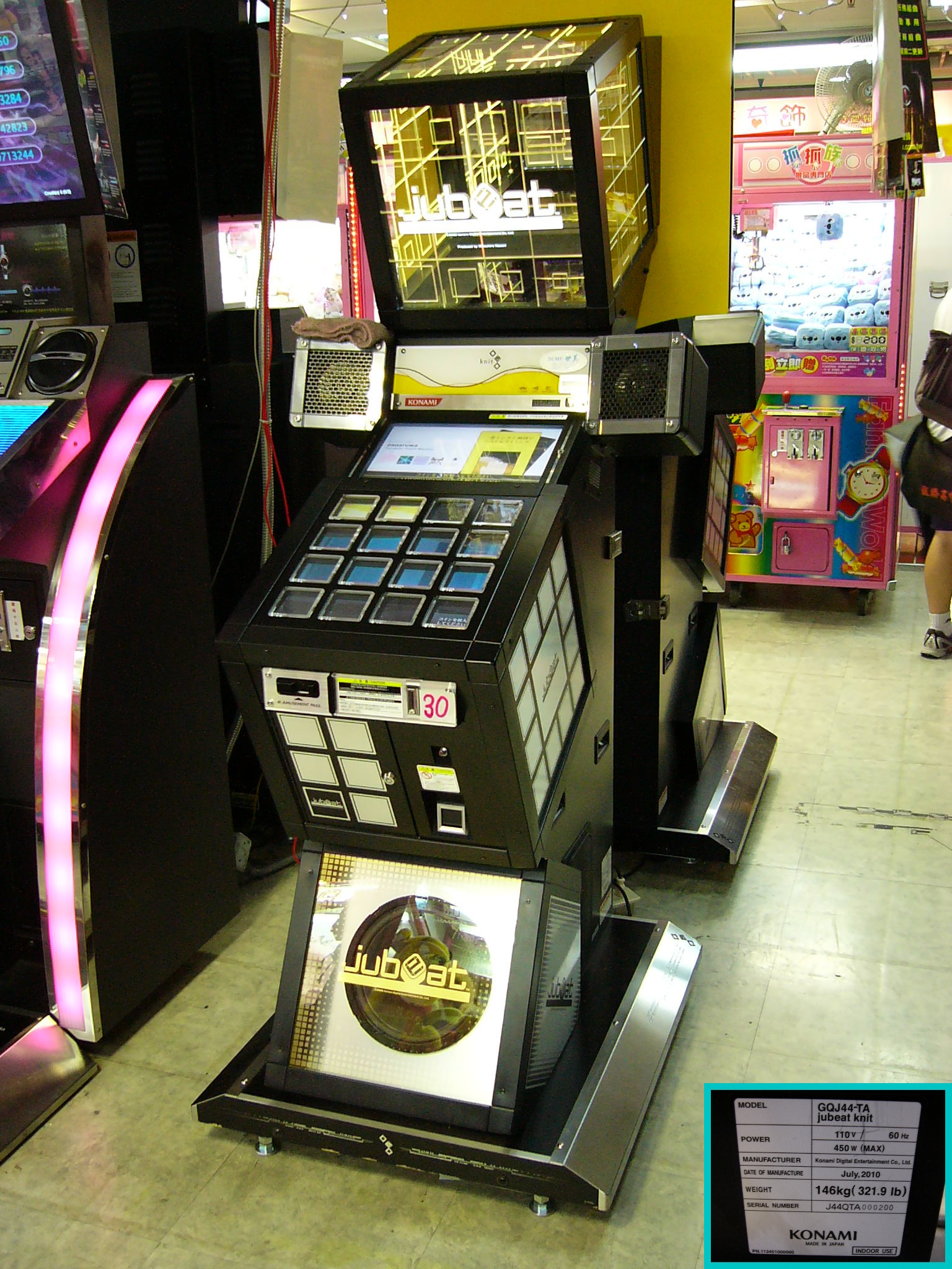 Konami jubeat knit GQJ44-TA in Taipei City Mall.